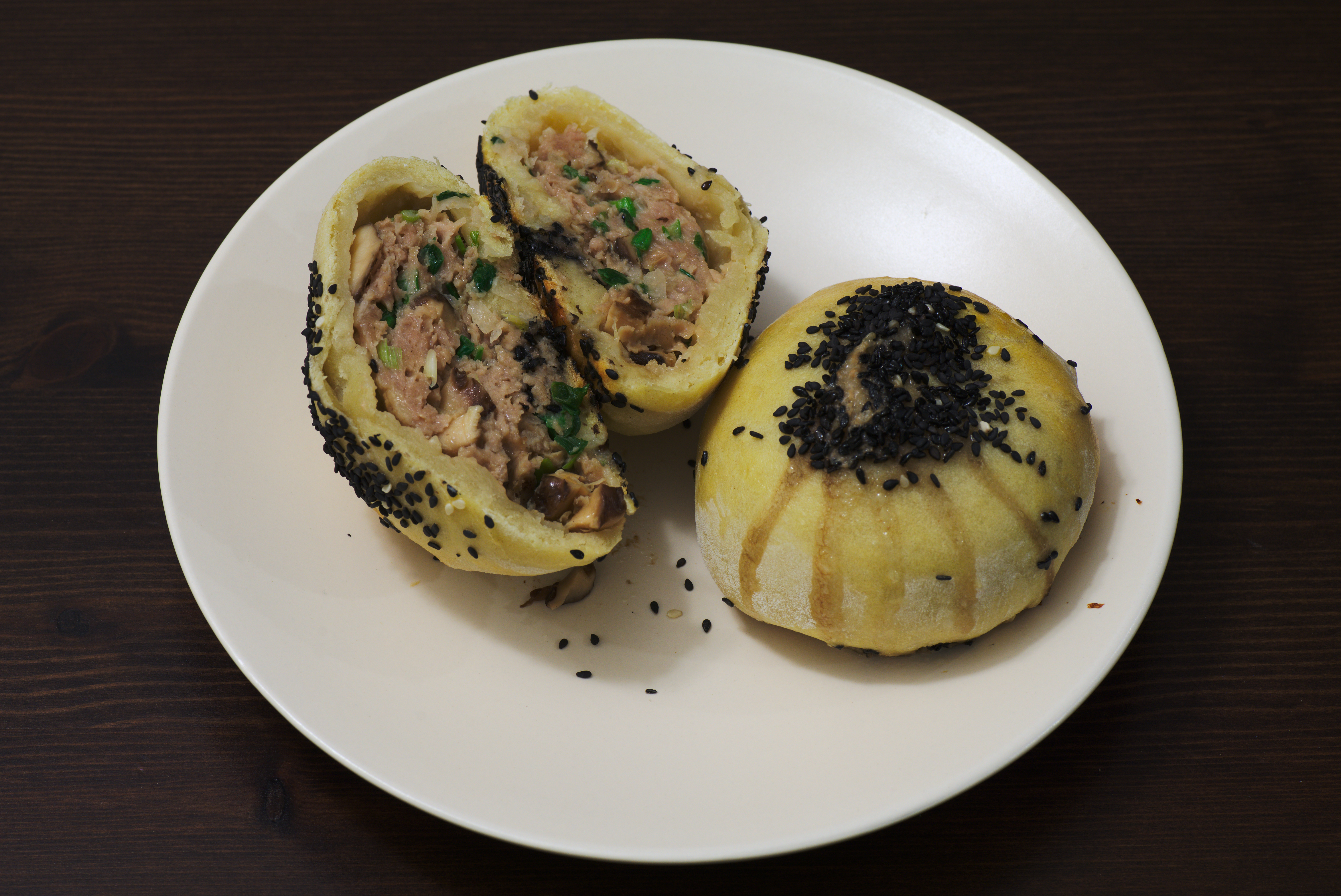 Mooncakes from Suzhou are known for the flaky dough and come in both sweet and savoury types. Savoury mooncakes are typically filled with minced pork; here, green onions, Chinese radish, and shiitake mushroom are also added. These particular ones were made by my mother in Canada.